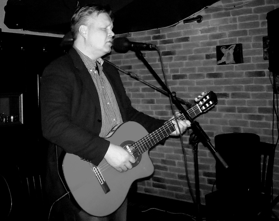 Ari Wahlberg, musician, singer songwriter, live in Helsinki 2013